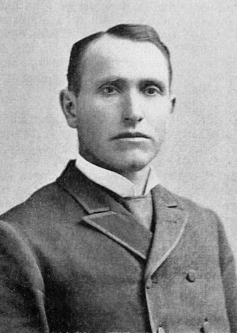 John C. Coolidge (Vermont State Senator)